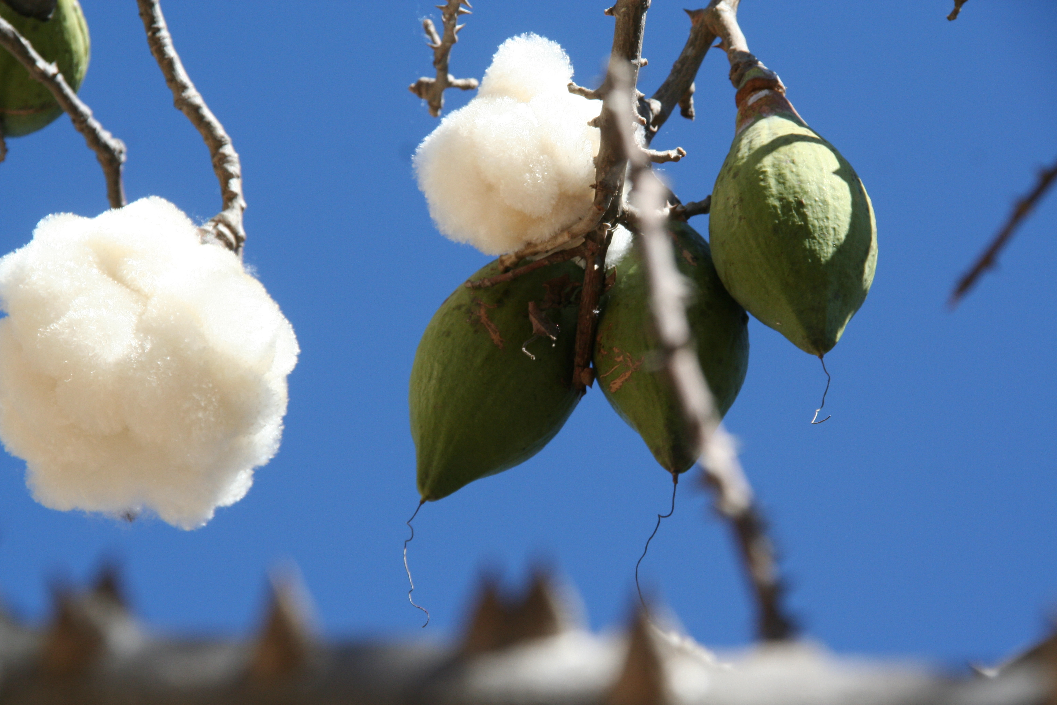 Ceiba pentandra in Mont Alban , Oaxaca , Mexico